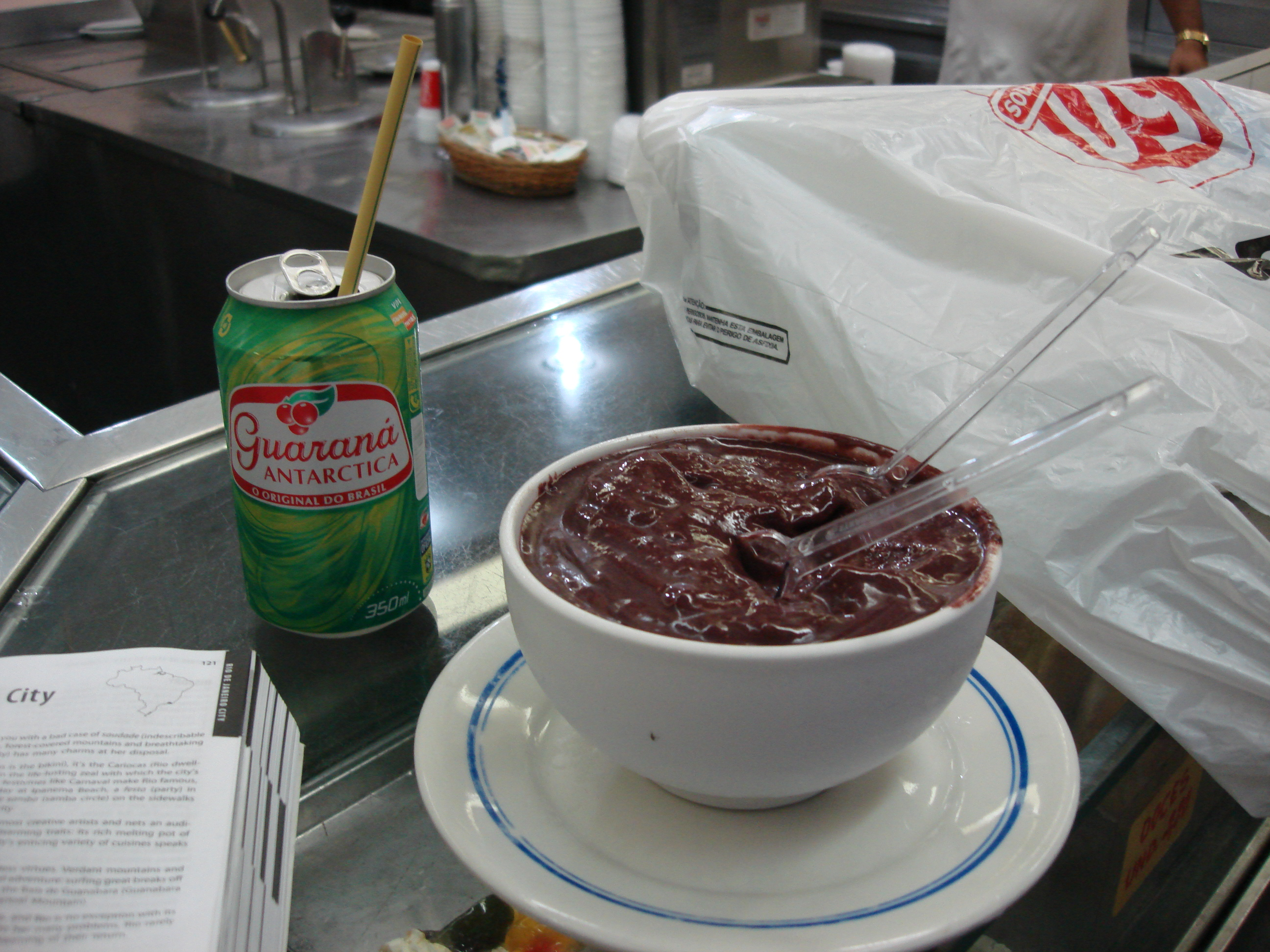 The juice and pulp of açaí fruits (Euterpe oleracea) are used in various juice blends, smoothies, sodas, and other beverages. In northern Brazil, açaí is traditionally served in gourds called "cuias" with tapioca and, depending on the local preference, can be consumed either salty or sweet (sugar, rapadura and honey are known to be used in the mix). Açaí has become popular in southern Brazil where it is consumed cold as açaí na tigela ("açaí in the bowl"), mostly mixed with granola — A fad in which açai is considered an energizer. Açaí is also widely consumed in Brazil as an ice cream flavor or juice.[citation needed] The juice has also been used in a flavored liqueur.